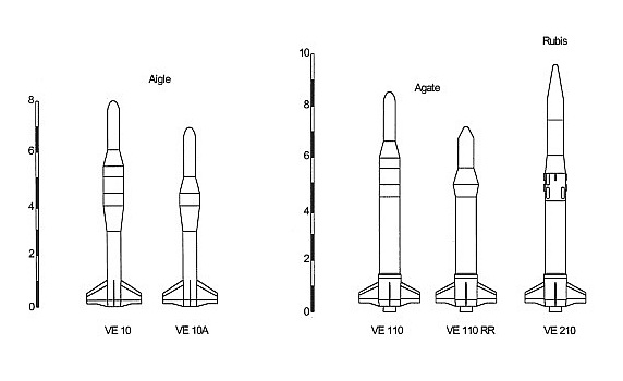 SÉREB early rockets diagrams.